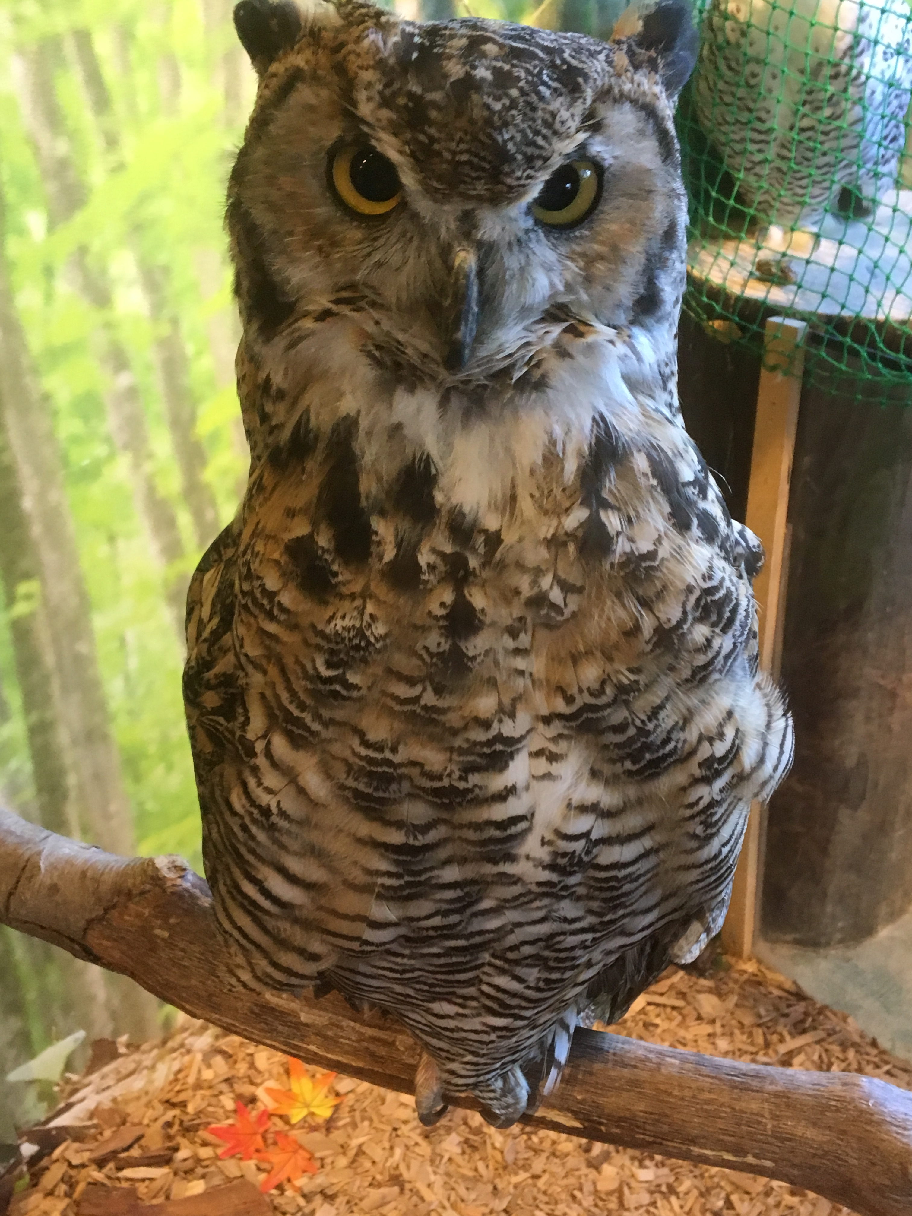 Bubo virginianus / Great Horned Owl